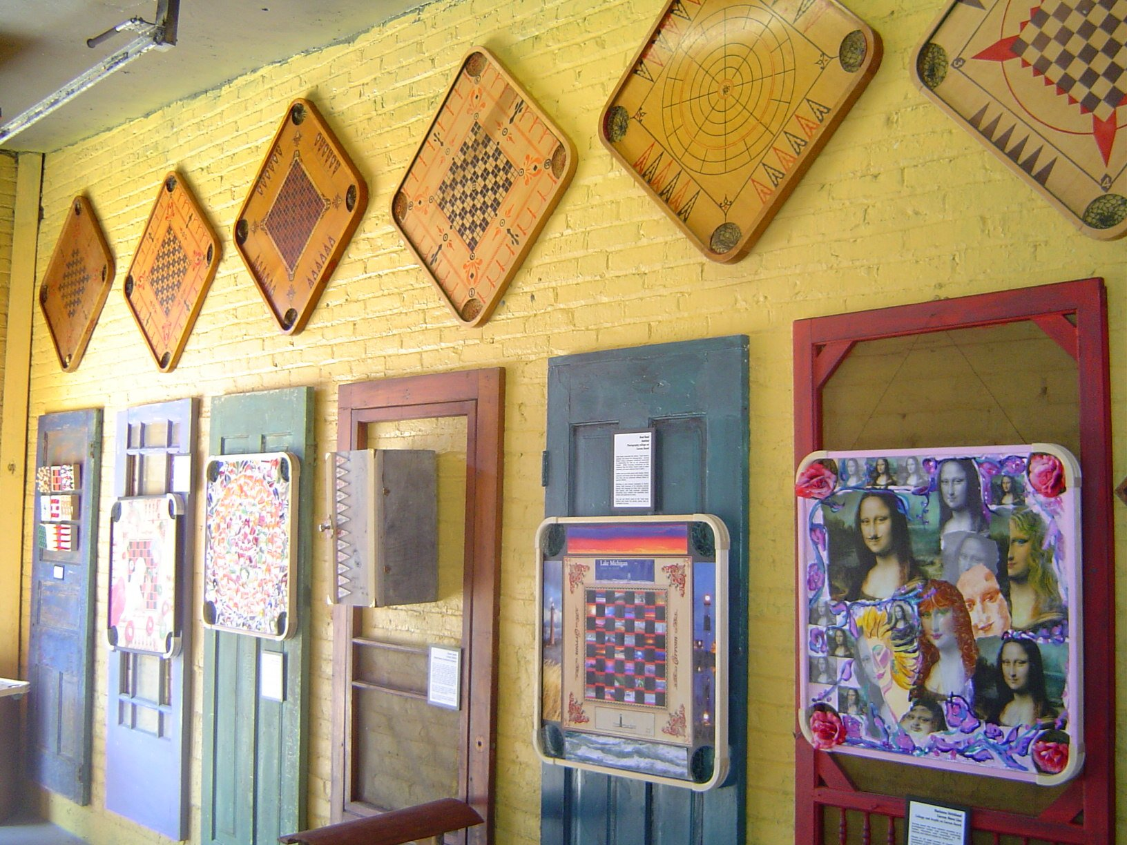 Carrom Board Game made in Ludington, Michigan